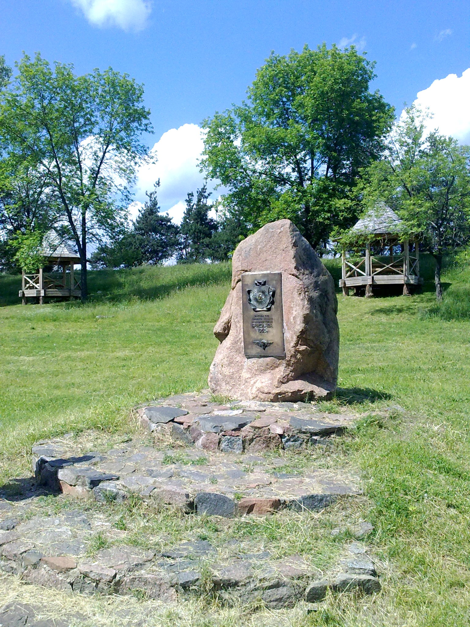 Беларуская (тарашкевіца): Гарадзішча. г. Браслаў This is a photo of Belarusian heritage monument. Reference number: 213В000174 ( WLM)